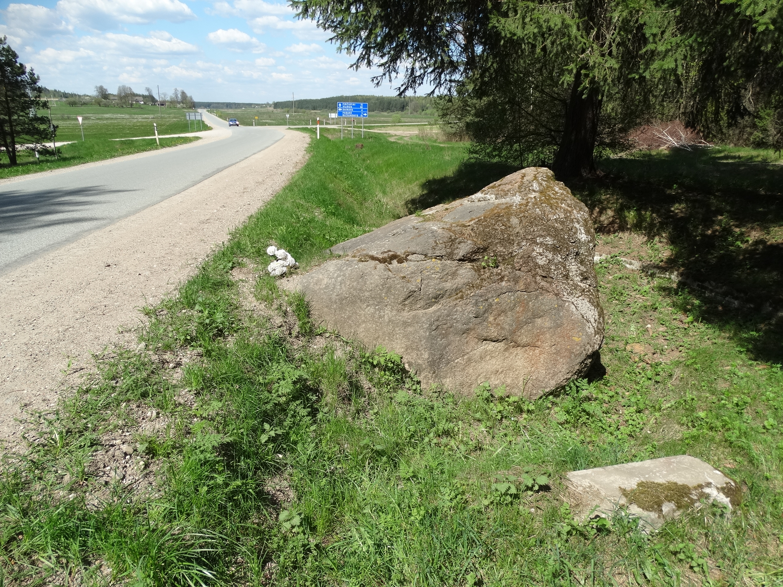 Stone, Pulstakai, regional road 105, Šalčininkai District, Lithuania